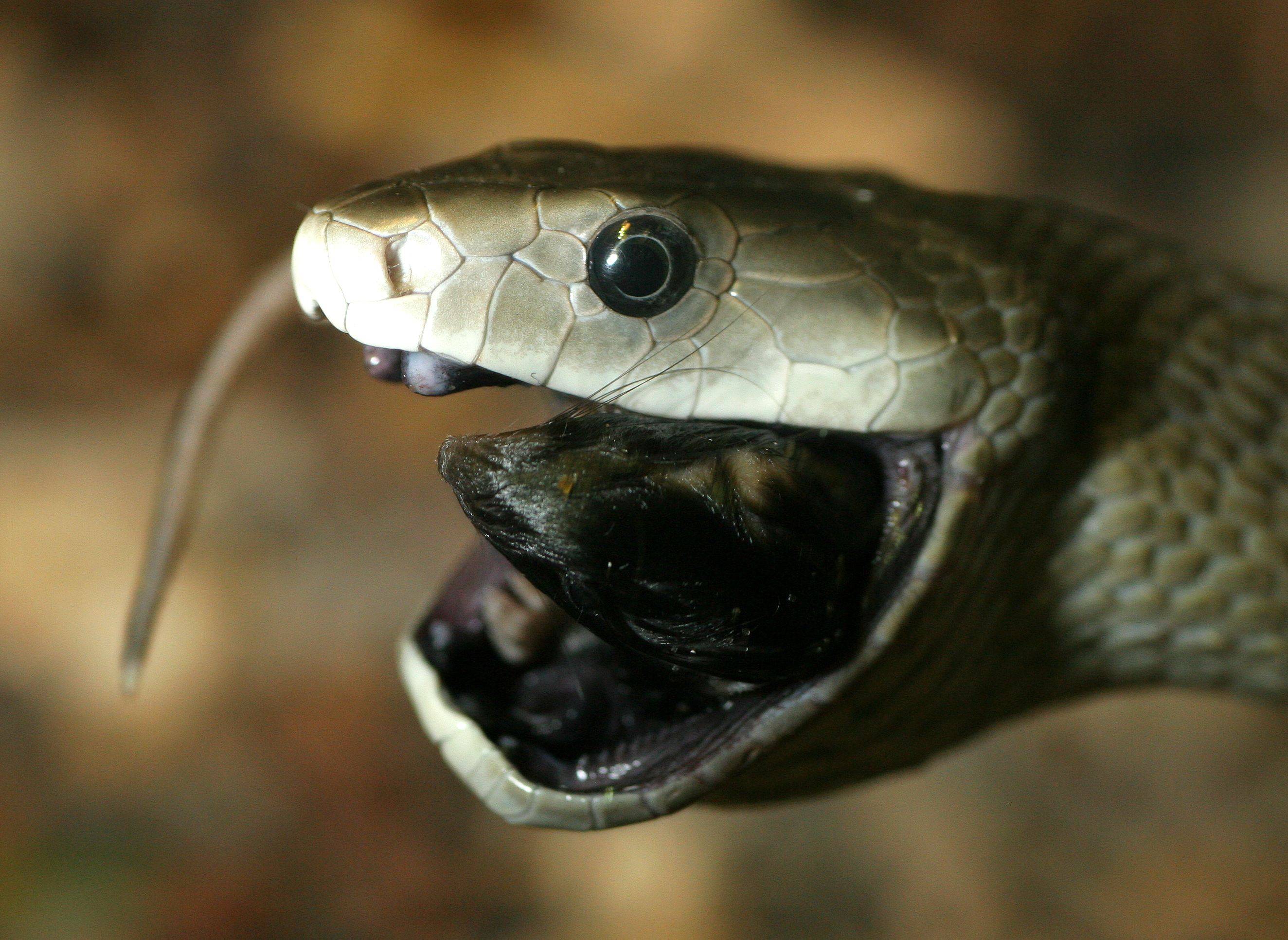 A black mamba eating.